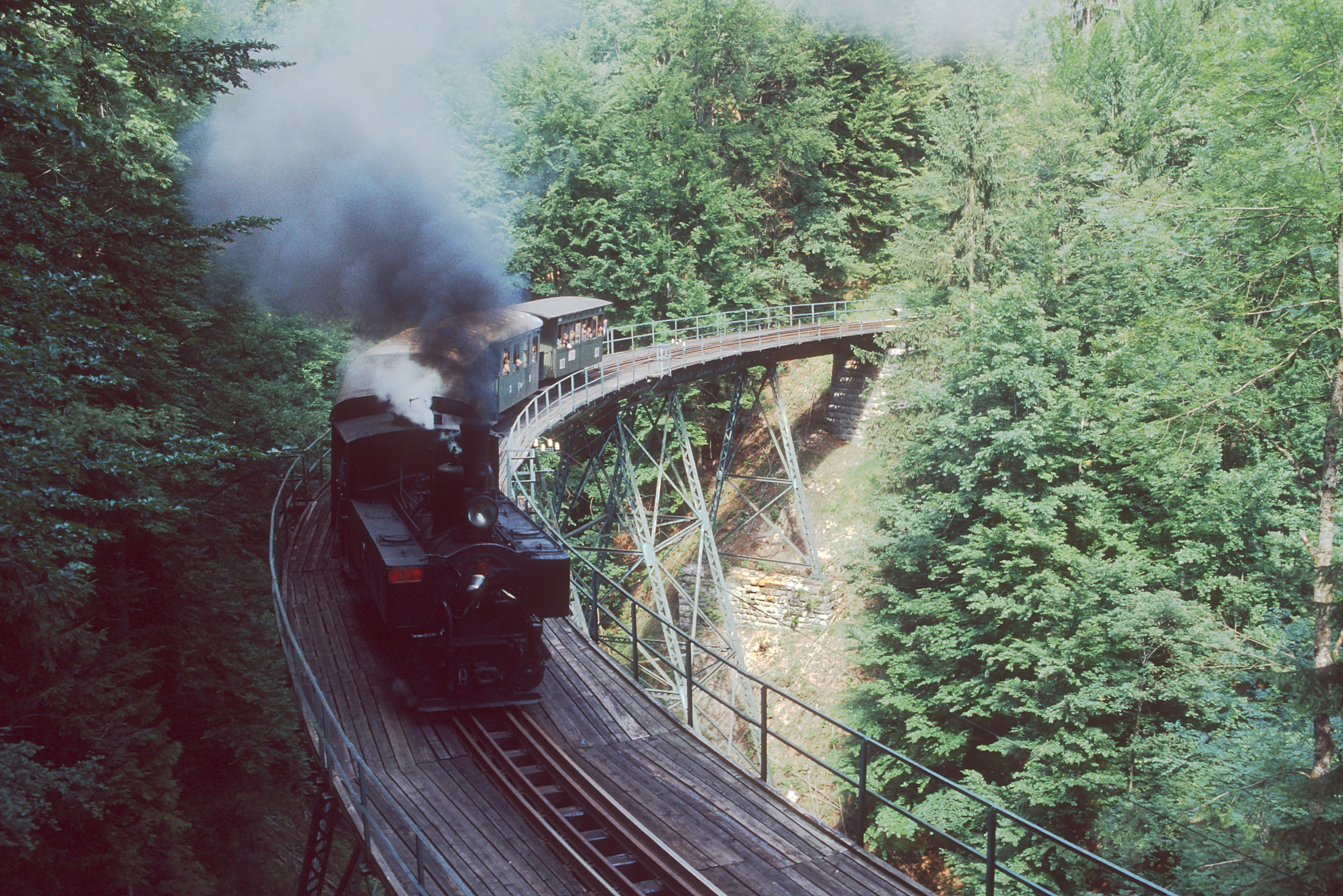 Wetterbach bridge of the Ybbstalbahn, heritage train Ötscherland-Express with engine U.1